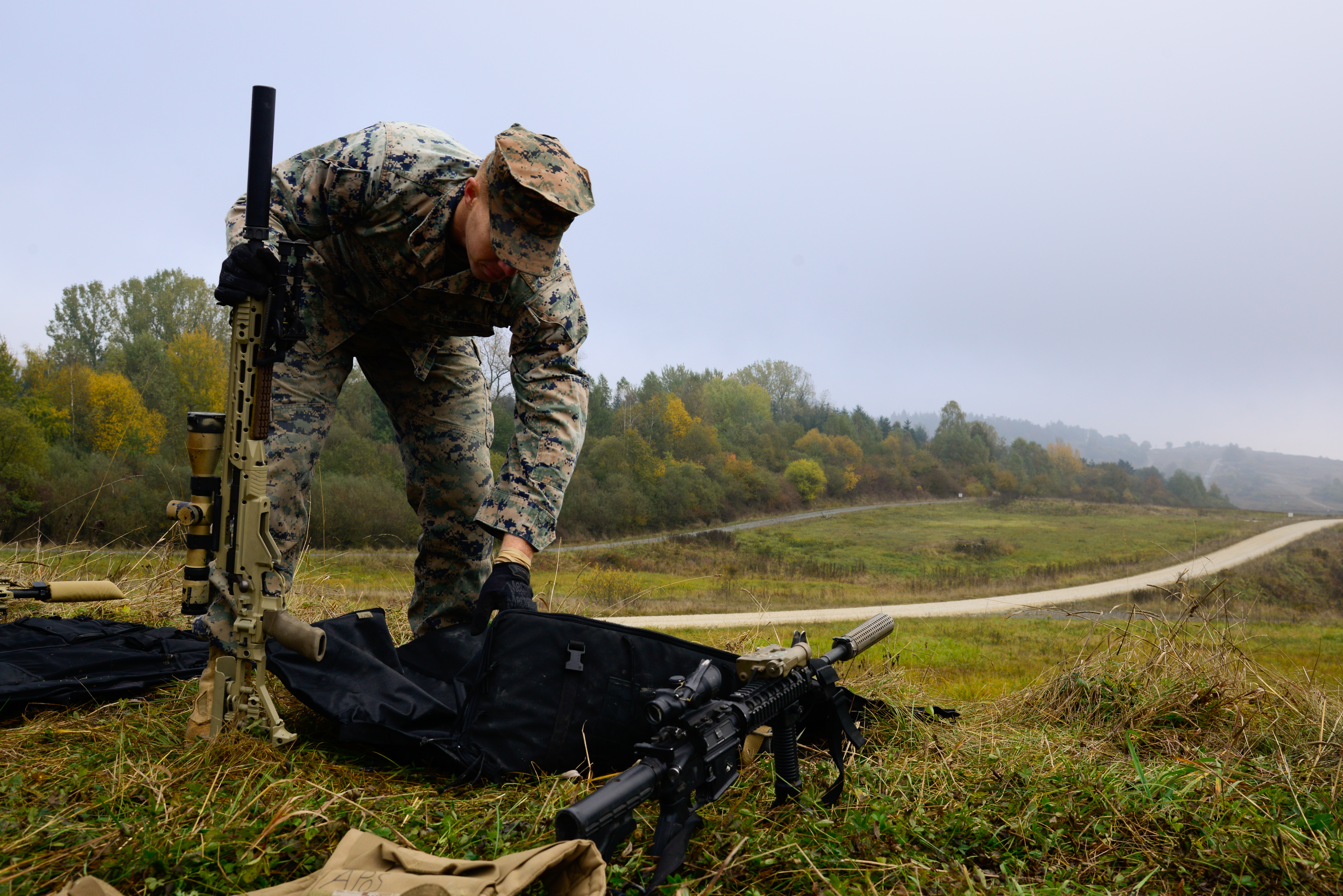 A U.S. Marine prepares his weapon to fire at a range during the European Best Sniper Squad Competition at the 7th Army Training Commandâs, Grafenwoehr training area, Bavaria, Germany, Oct. 23, 2016. The European Best Sniper Squad Competition is an Army Europe competition challenging militaries from across Europe to compete and enhance teamwork with Allies and partner nations. (U.S. Army photo by Spc. Emily Houdershieldt)